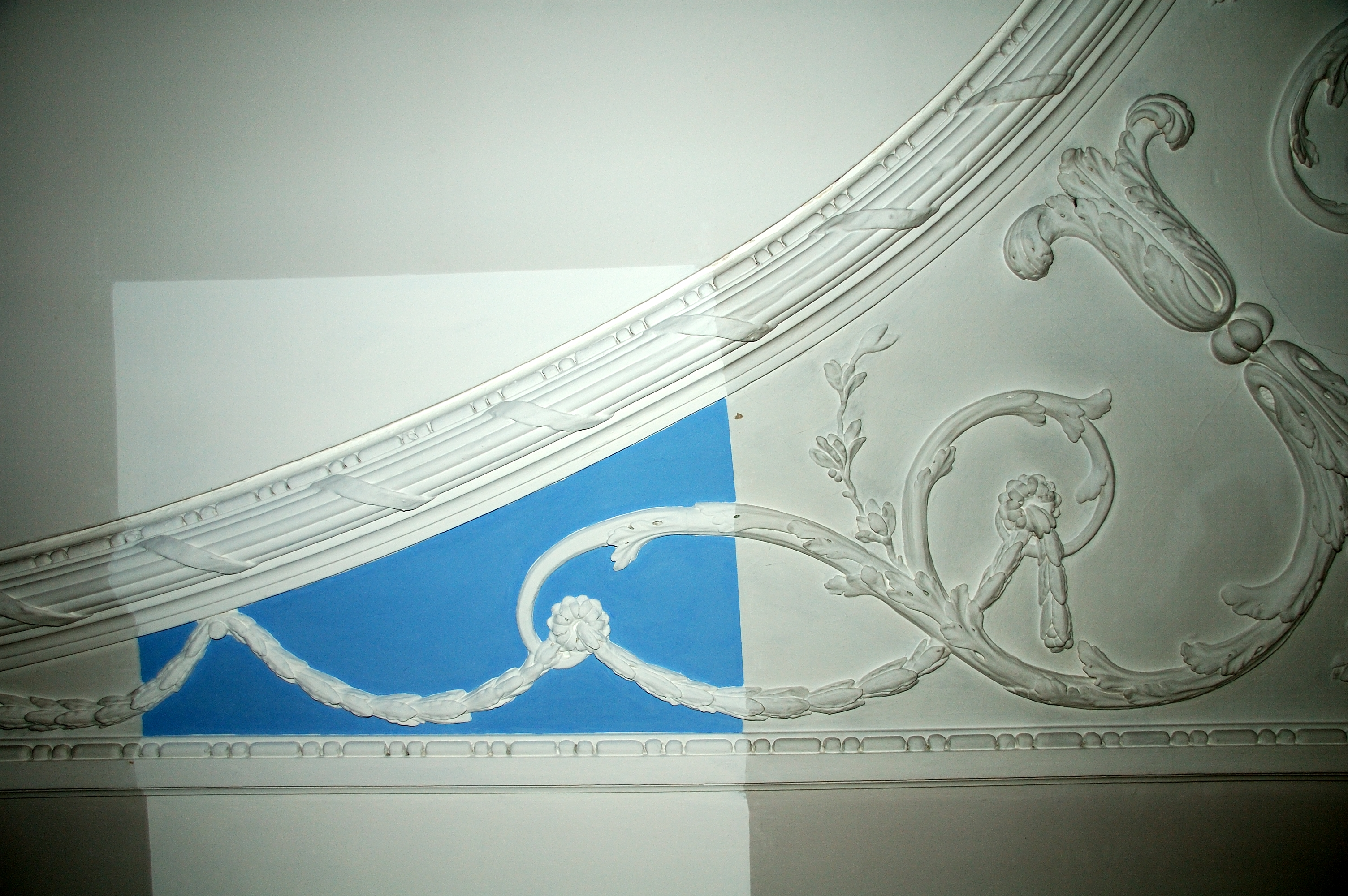 Test of coulouration